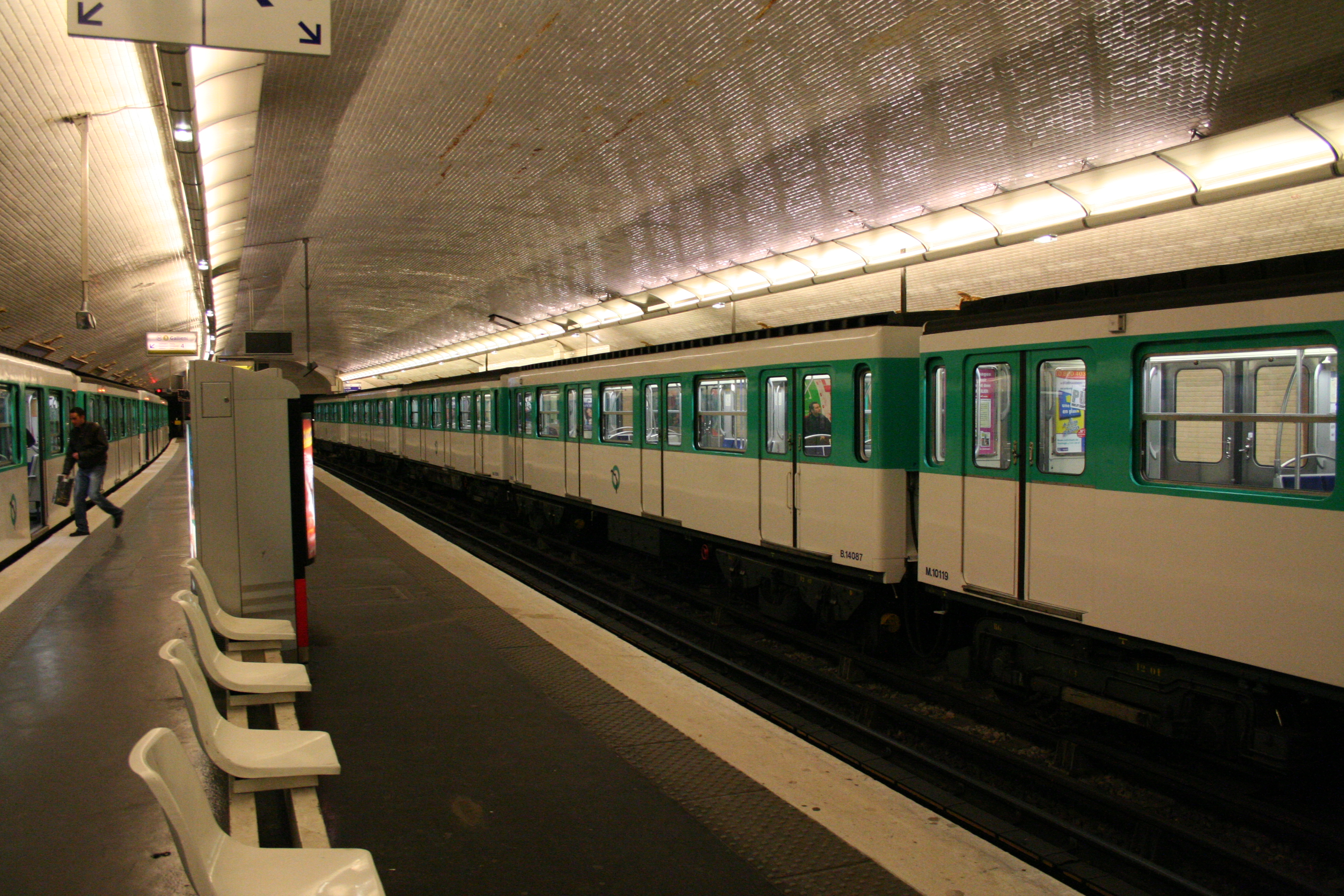 Trains of the Paris Metro at the station Le pont de Lavallois-Bécon (line 3)